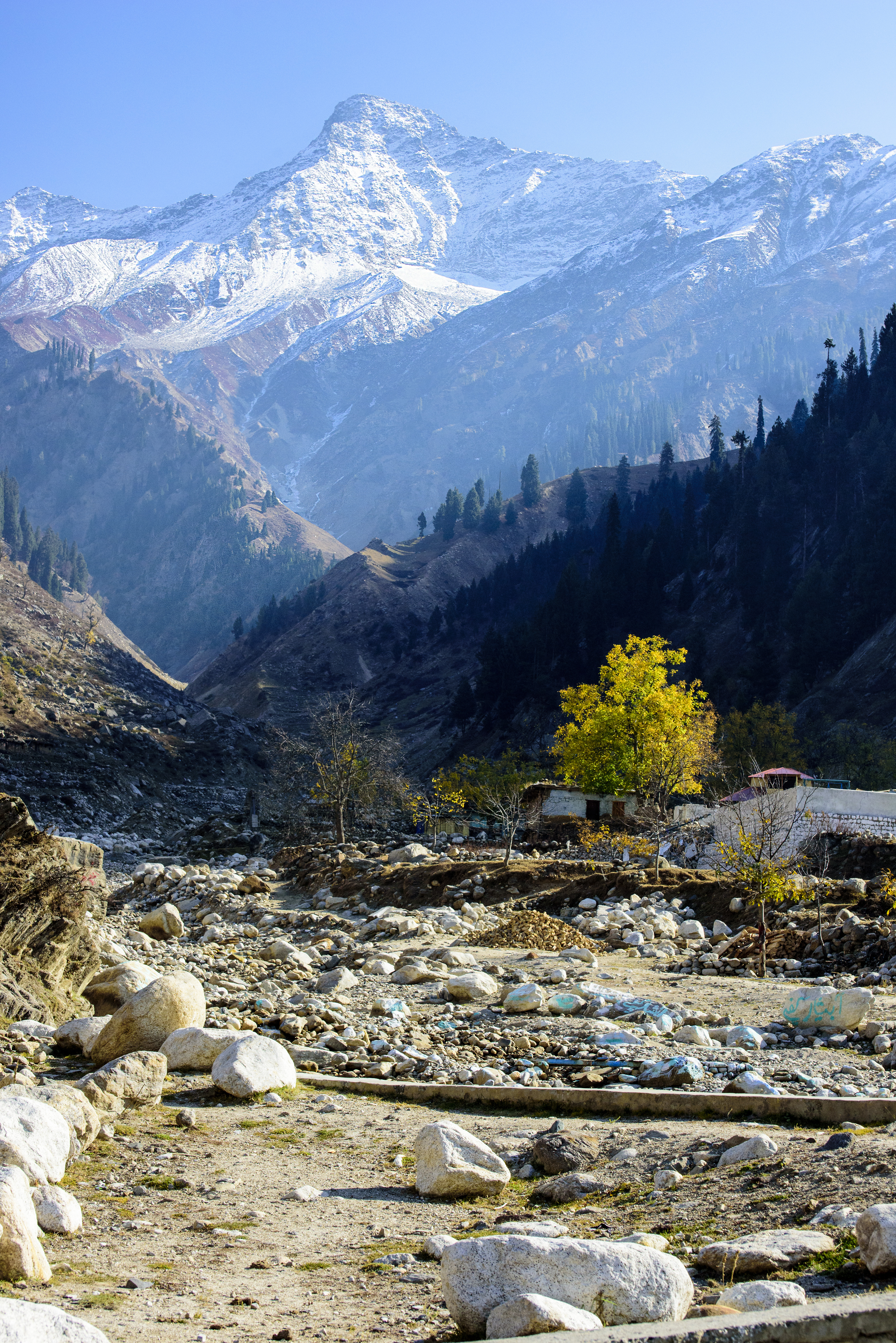 Malka Parbat (Queen of the Mountains) is the highest mountain in Naran Valley. It is termed as impregnable amongst the locals and for good reason; it was conquered as recently as 2012 after costing a lot of lives over the years. The grace of the mountain cannot be judged through this picture. It is huge and its snows have survived the entire summer going into next winters.